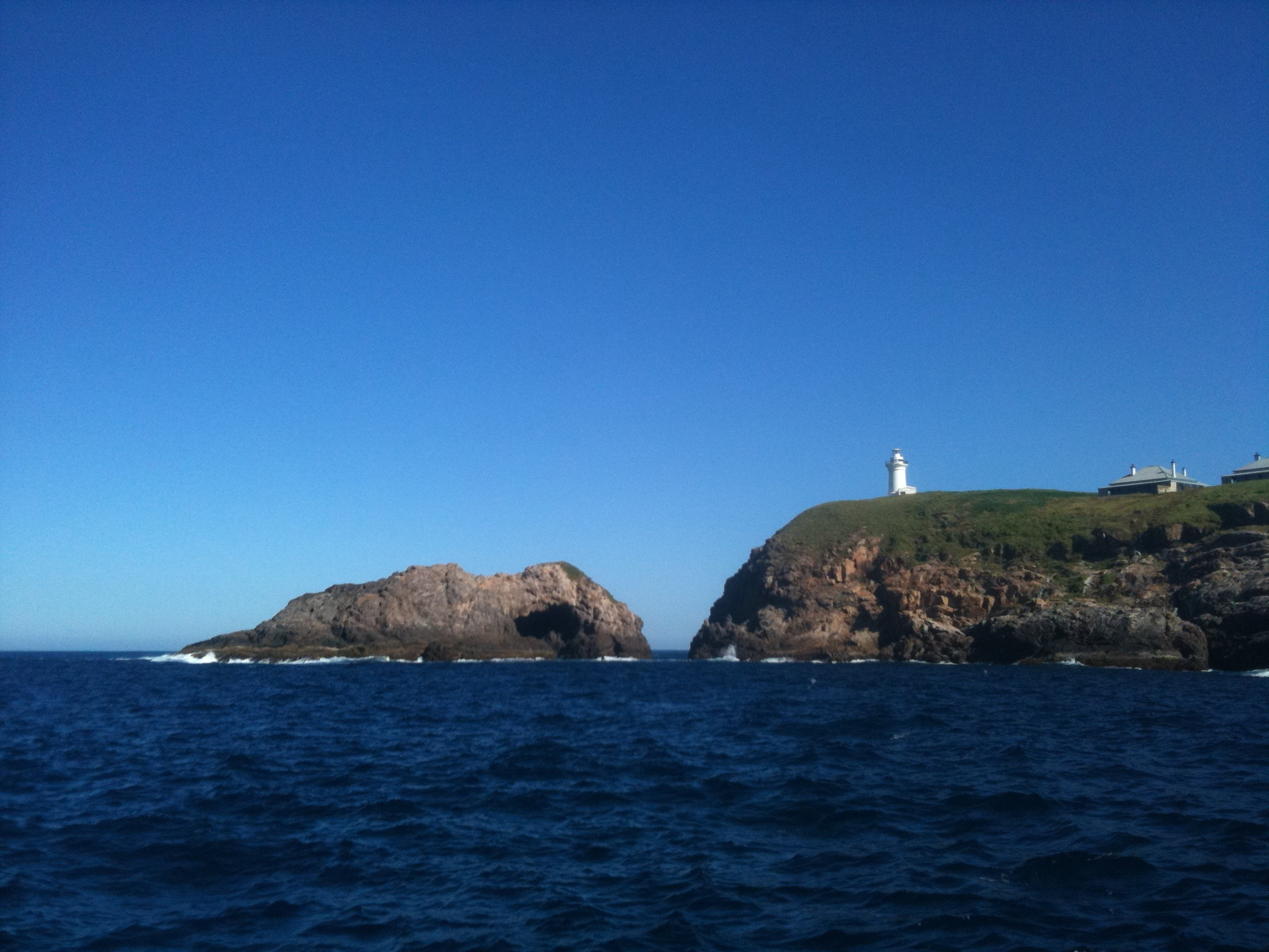 South Solitary Island